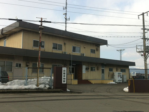 Hakodate freight terminal